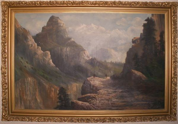 "Little Arroyo" — by John Englehart, signed as C.N. Doughty; oil painting; 1908. Painting of a side canyon in the Hetch Hetchy Valley, within Yosemite National Park. About 83 x 56 inches, with a 100 inch—8.33 foot diagonal; in original frame. The Little Arroyo may be under water since the 1920s, as Hetch Hetchy Valley was submerged under Hetch Hetchy Reservoir, after completion of the O'Shaughnessy Dam dam at the foot of the valley in 1923. Credits Photo by David P Cole.